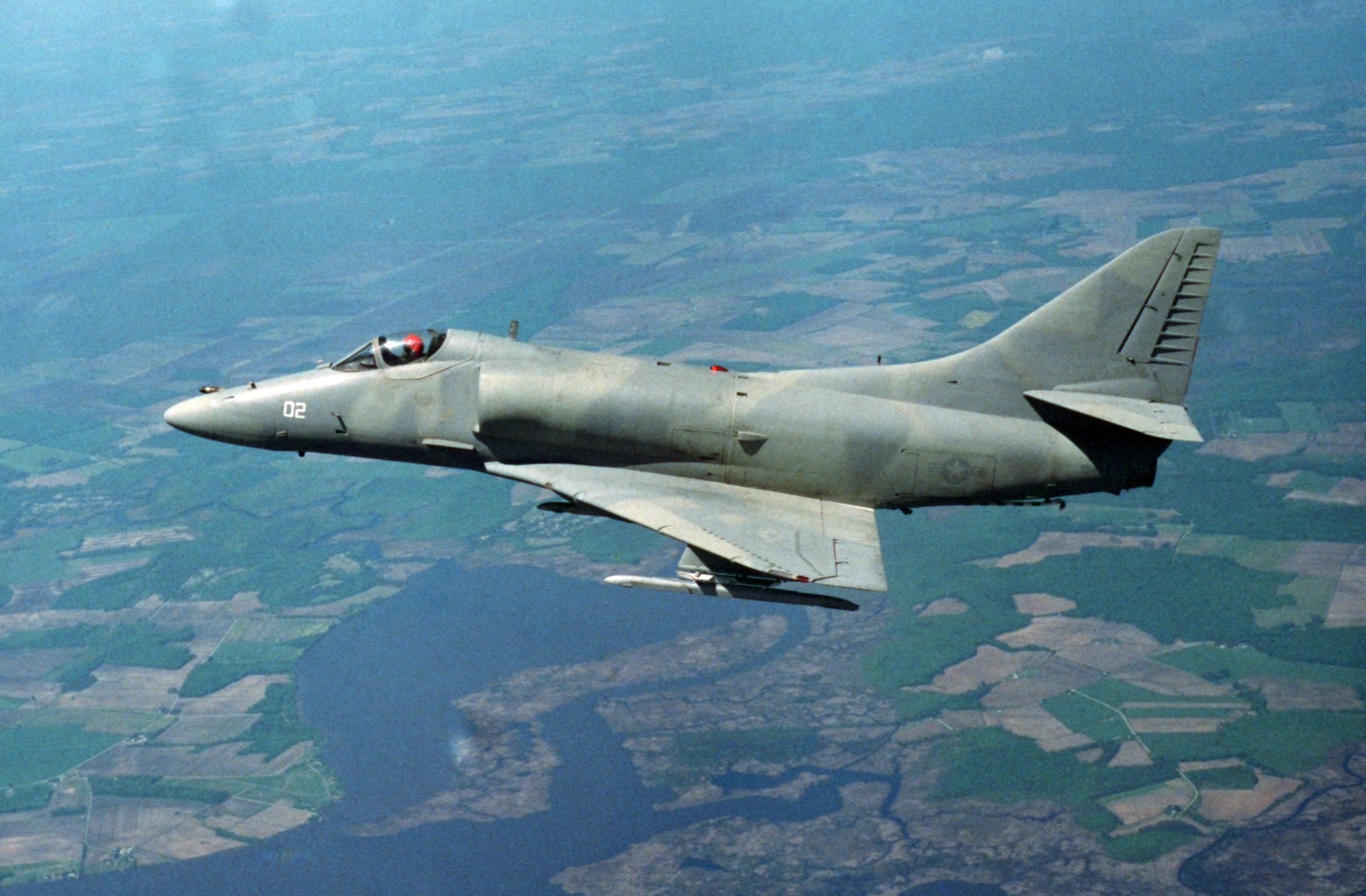 A U.S. Navy Douglas A-4F Skyhawk of Composite Squadron 12 (VC-12) in flight in 1987.